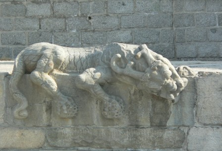 A baxia (one of the 9 Children of the Dragon) by the water